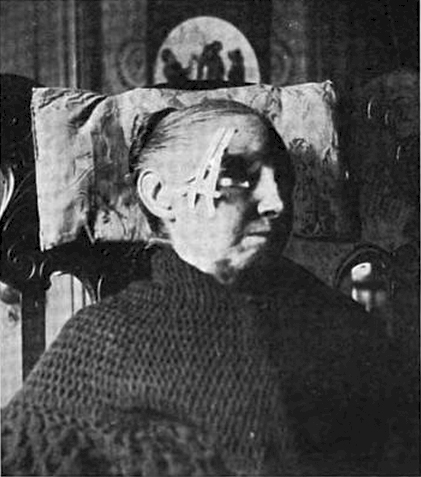 Photograph showing the method of strapping on small tubes of radium to the skin to treat malignancies.